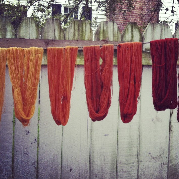 Skeins dyed naturally with madder root, hanging to dry, at Colonial Williamsburg, Virginia, USA. 3/31/12